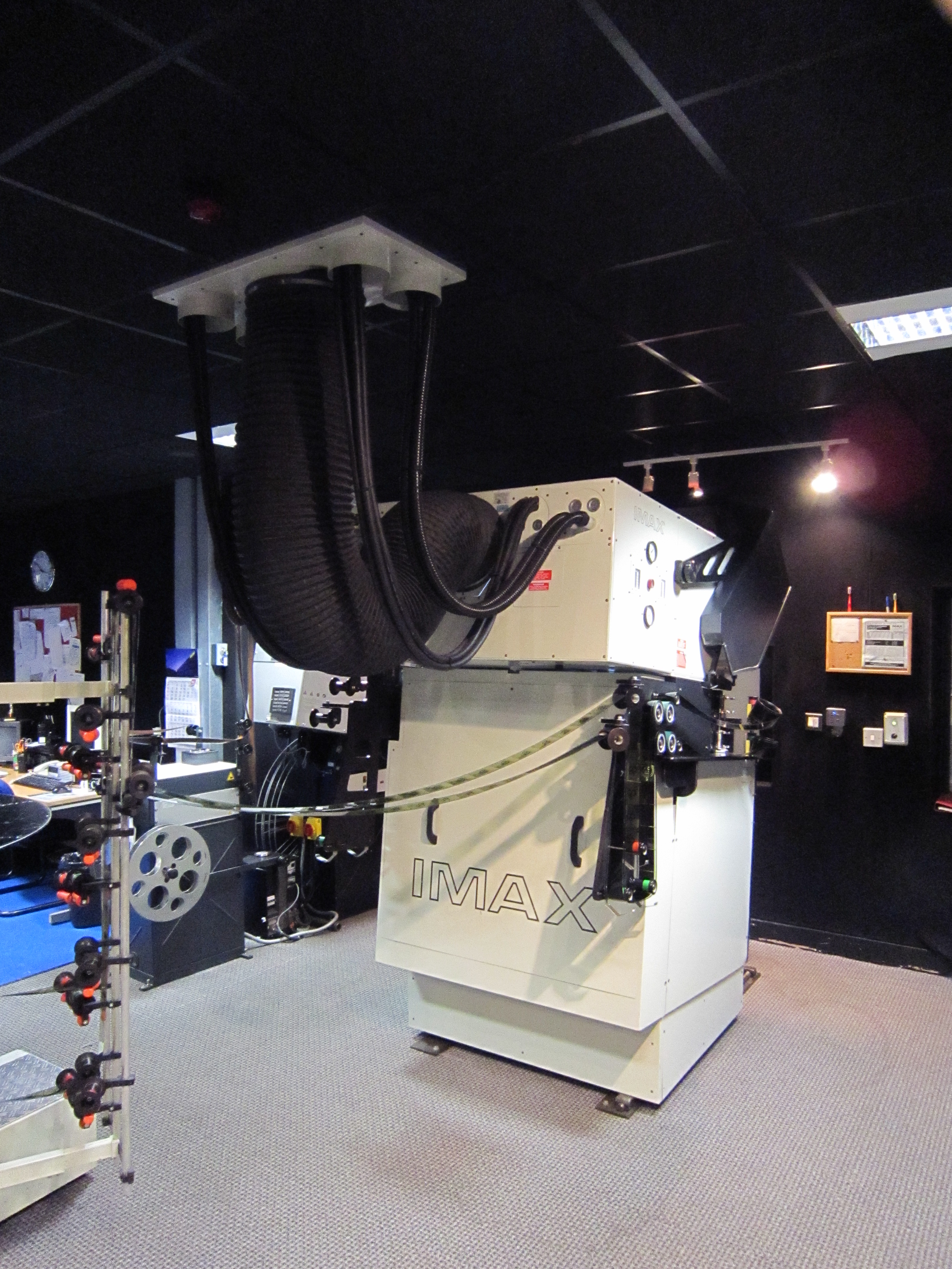 The IMAX GT projector. The pipes going into the roof are to cool the overall projector and bulb. The thick one is air, the smaller ones are water. The room next to the projection room has a full pump system including a dedicated feed of water, separate to the normal city water system. The Xenon bulb inside costs £3,500 (yes, three and a half thousand pounds), and comes from Belgium. It lasts 900* hours, so it does need to be replaced fairly often. They used to source the bulbs from the US but their ones have a shorter lifespan (though they were a bit cheaper). To the left a bit, you can see the 35mm (standard cinema film) projector, which is used mostly for advertising and trailers before the movie. On top of that is another generic office projector, which is used for displaying the "welcome to the IMAX" PowerPoint show that shows upcoming films, and so on. *I think it was 900 hours. It might be 600 hours. I can't really remember what Sally (our "tour guide" of sorts) said, but I'm fairly sure it was 900.